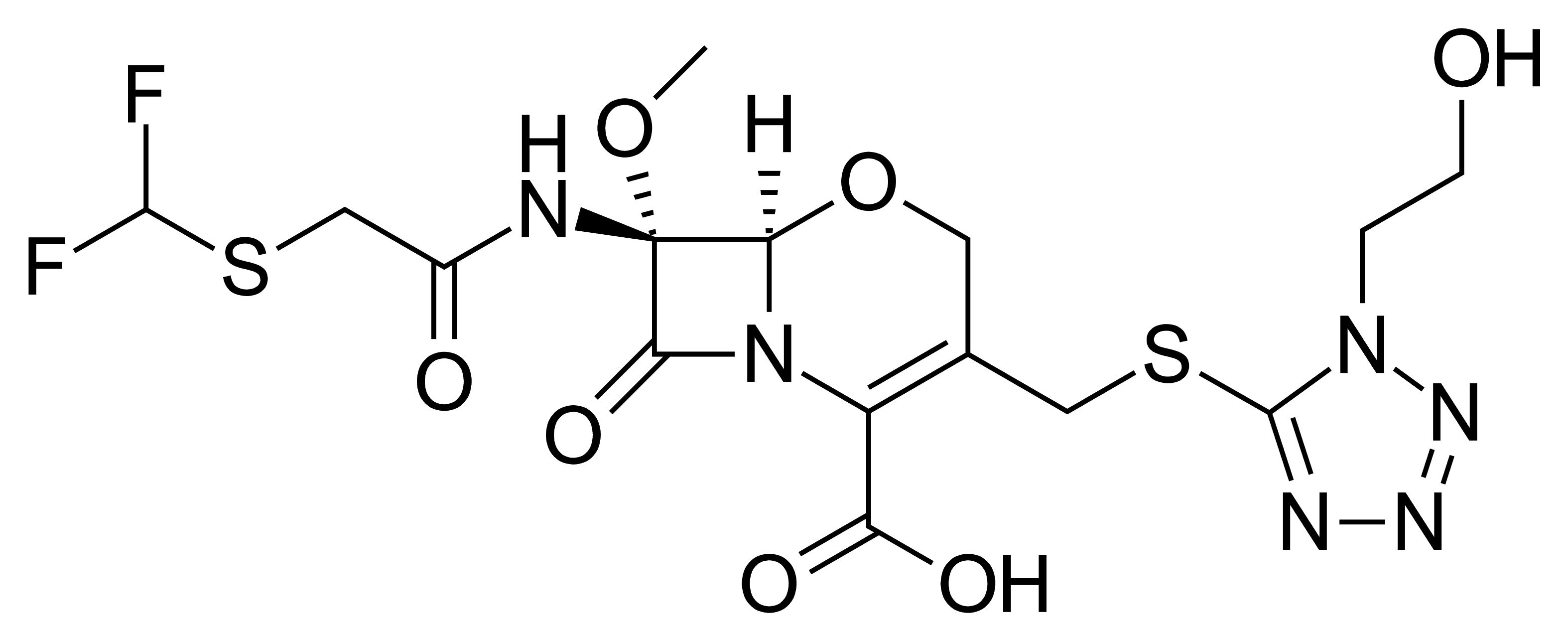 Chemical structure of flomoxef